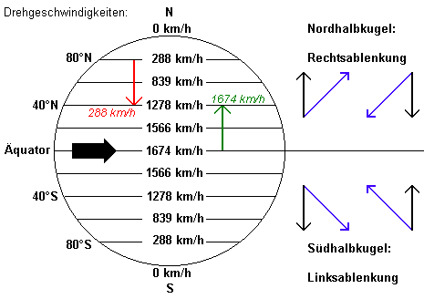 Coriolis-Effekt